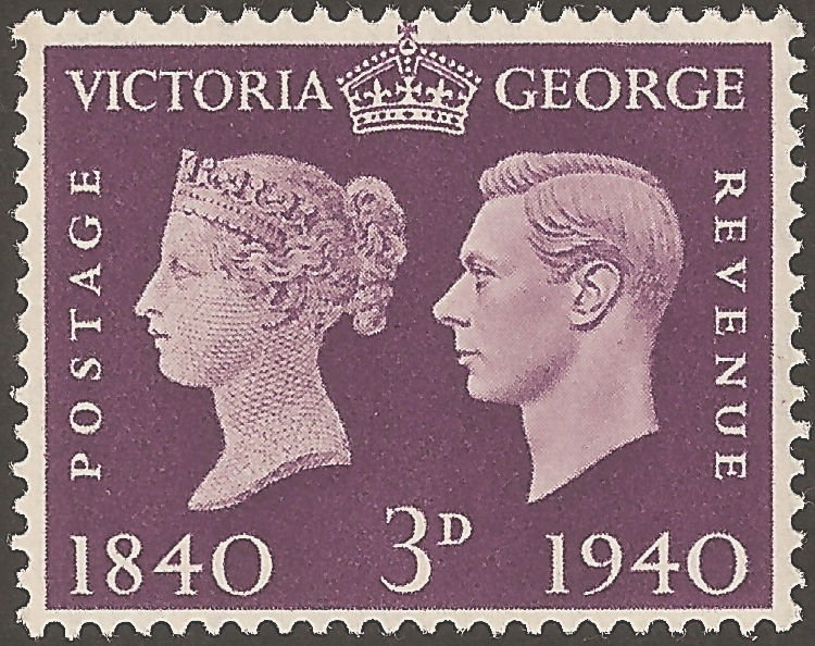 Stamp of Britain commemorating the centenary of the Penny Black with 10 years late because of World War 2, issued 1950.